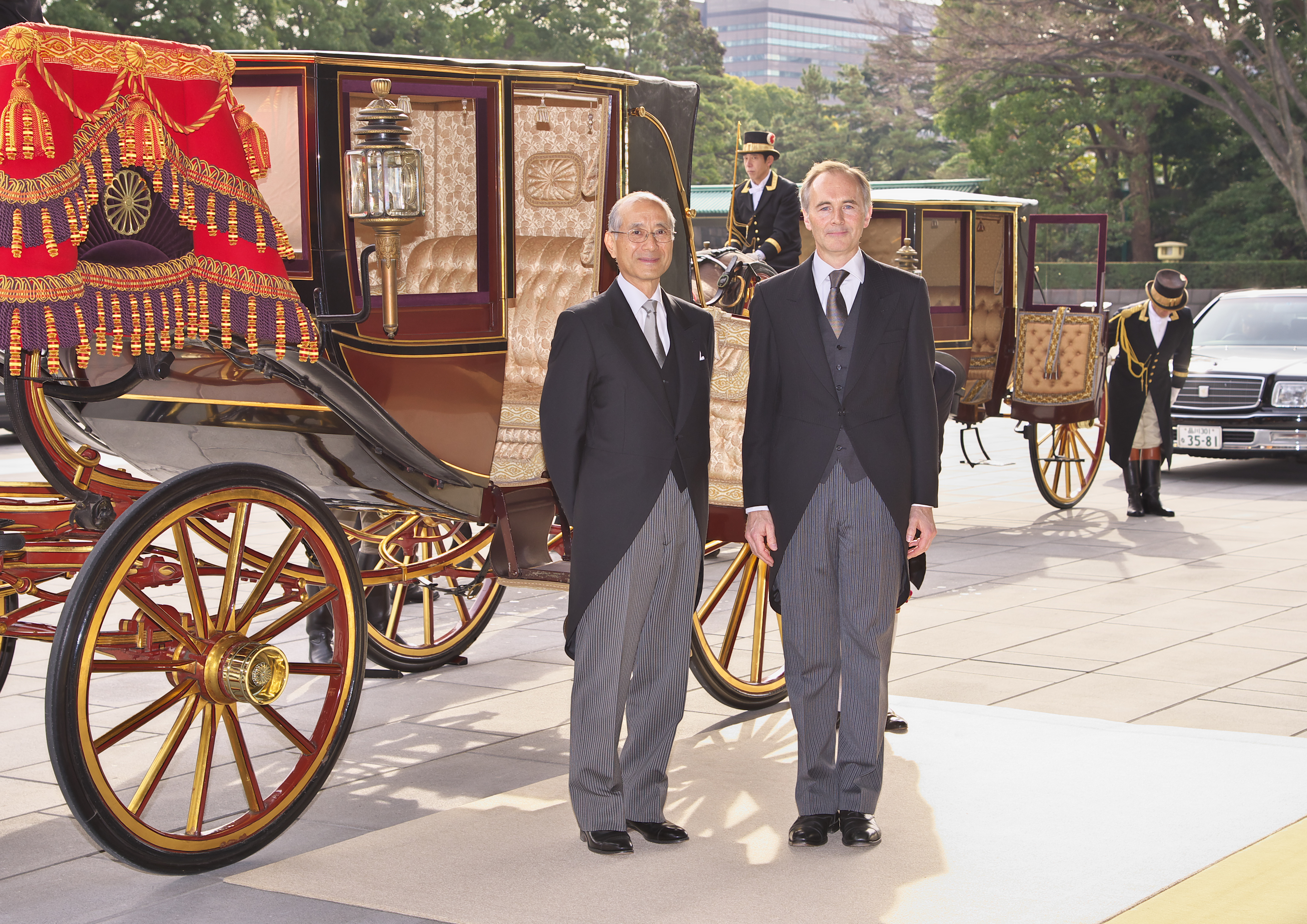 Tim Hitchens, Ambassador to Japan, met Nobutake Odano, Grand Master of the Ceremonies, the Imperial Household Agency, to attend the Ceremony of the Presentation of Credentials in Chiyoda Ward, Tōkyō Metropolis on December 21, 2012.